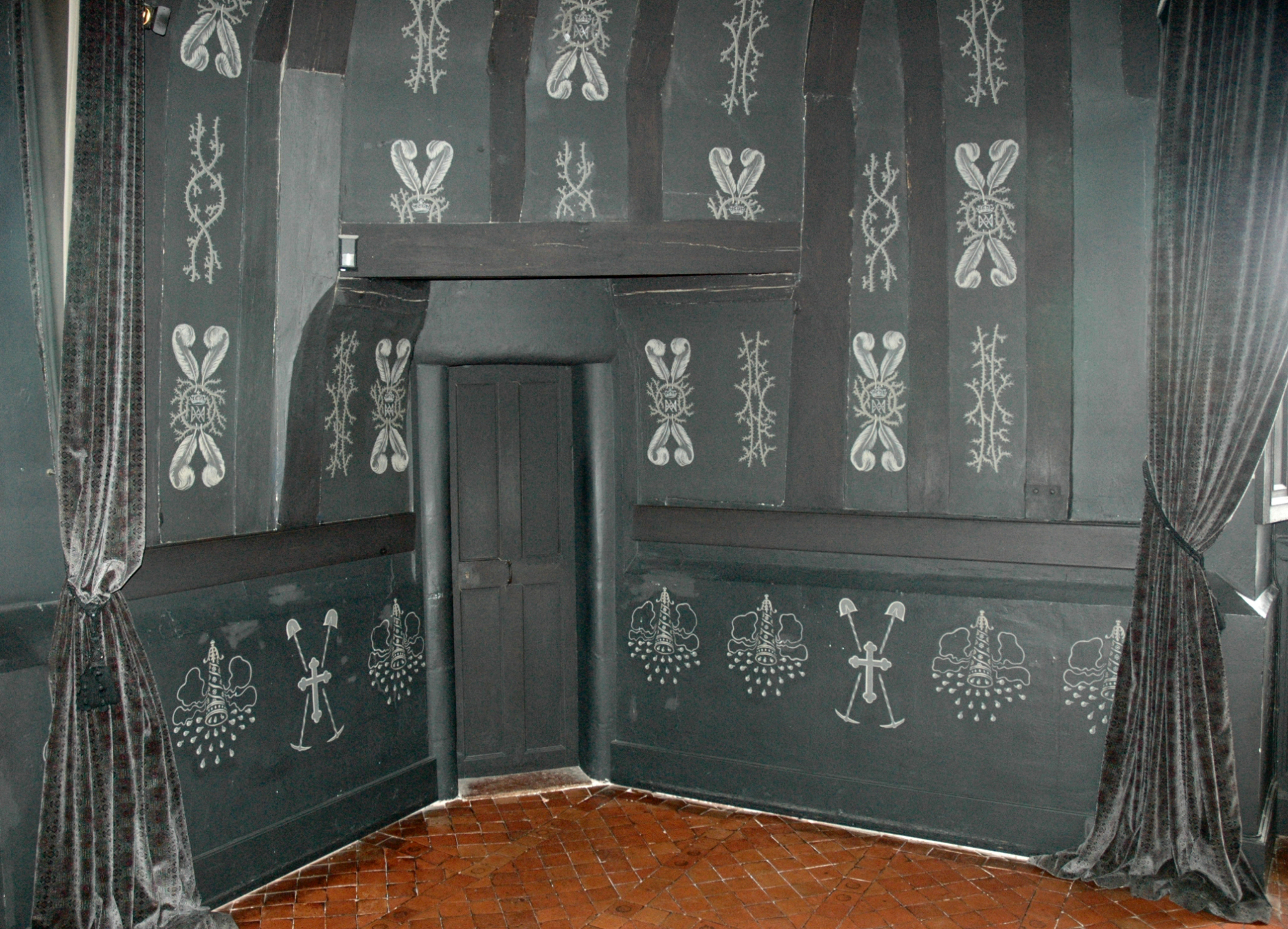 Château de Chenonceau, pannelling of Louise de Lorraine's room